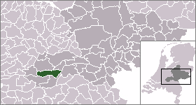 Locator map of Dutch municipalities in Gelderland (LocatieNeerijnen.png)